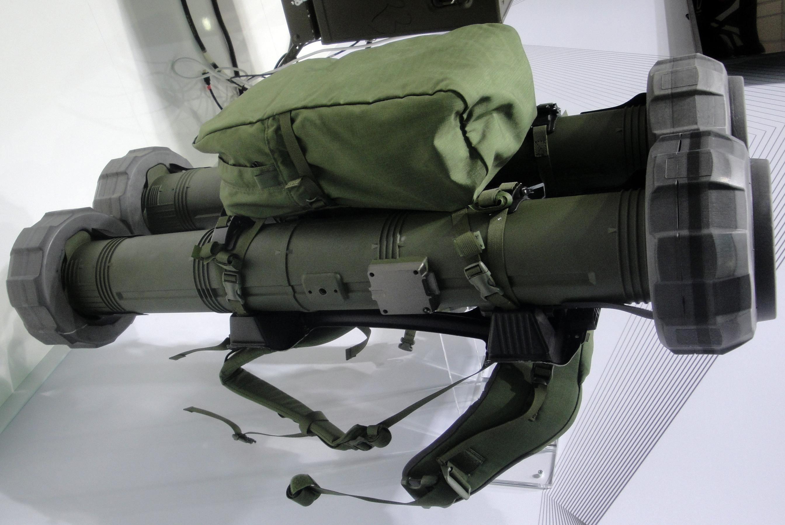 Spike LR 2, IDET/PYROS/ISET 2019, Brno